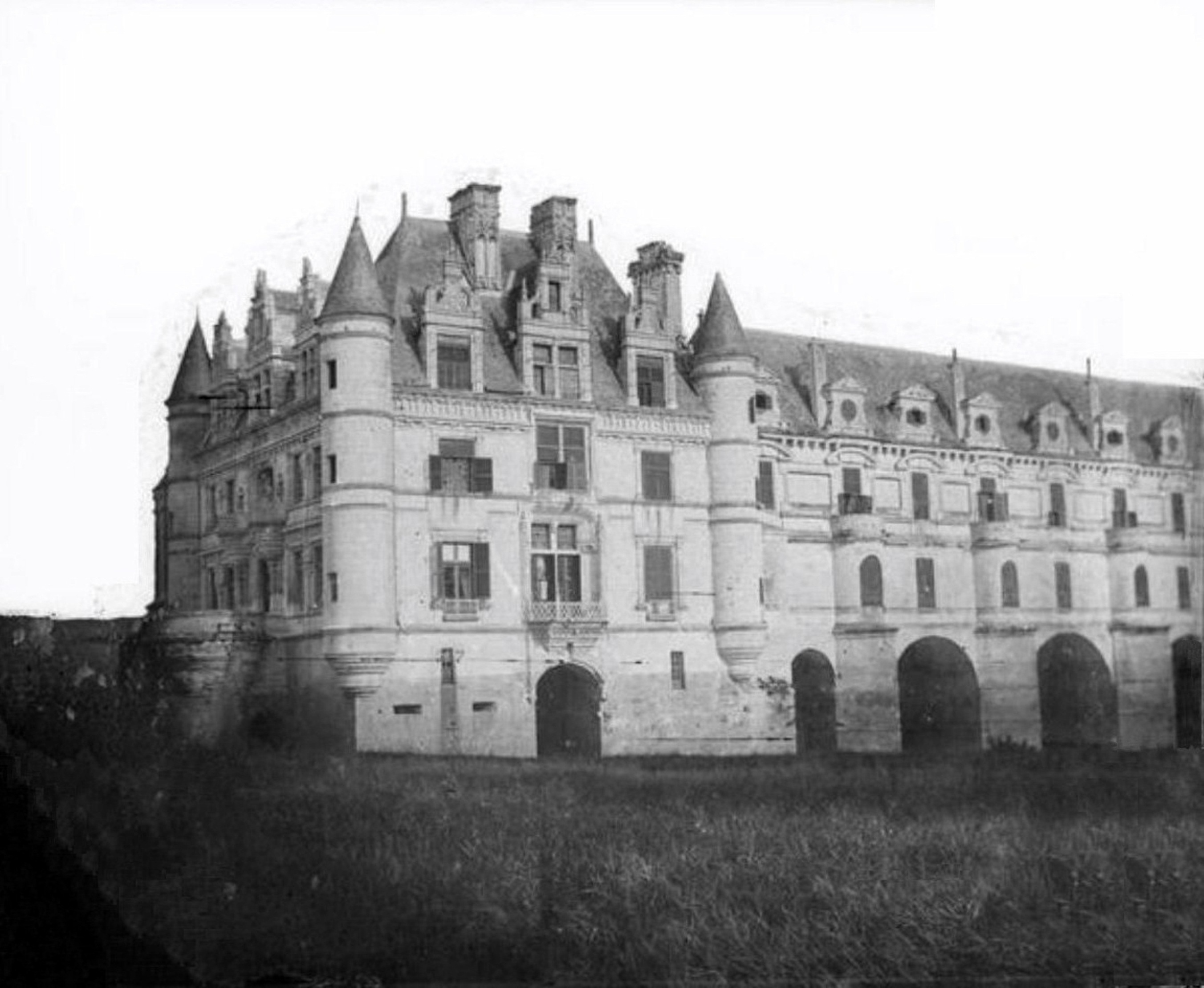 The castle of Chenonceau, photograph by Louis Alphonse de Brébisson. The estate is then the property of the count René Vallet de Villeneuve, grand nephew of Madame Dupin.